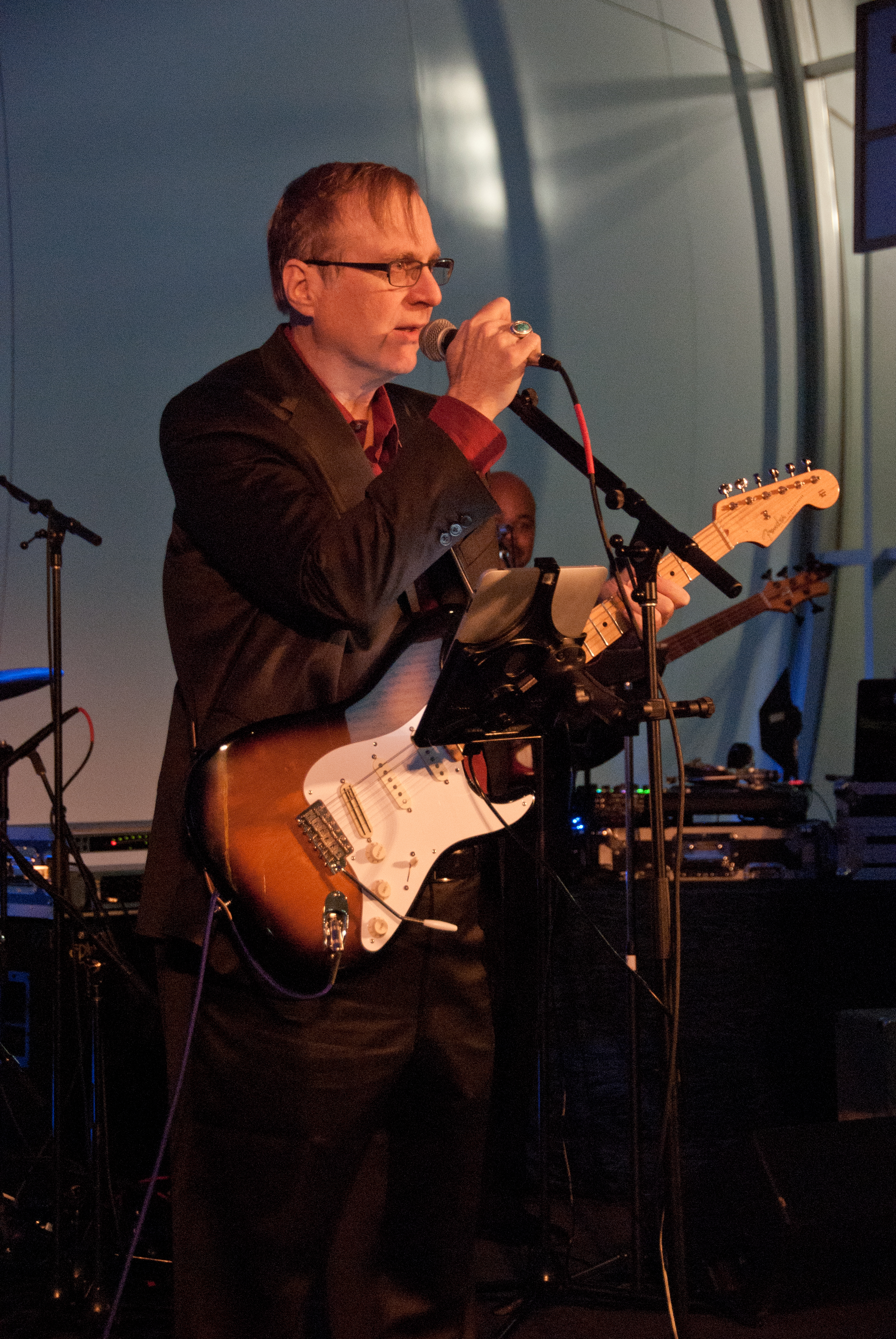 Paul Allen speaks at the Allen Institute for Brain Science 10th Anniversary gala